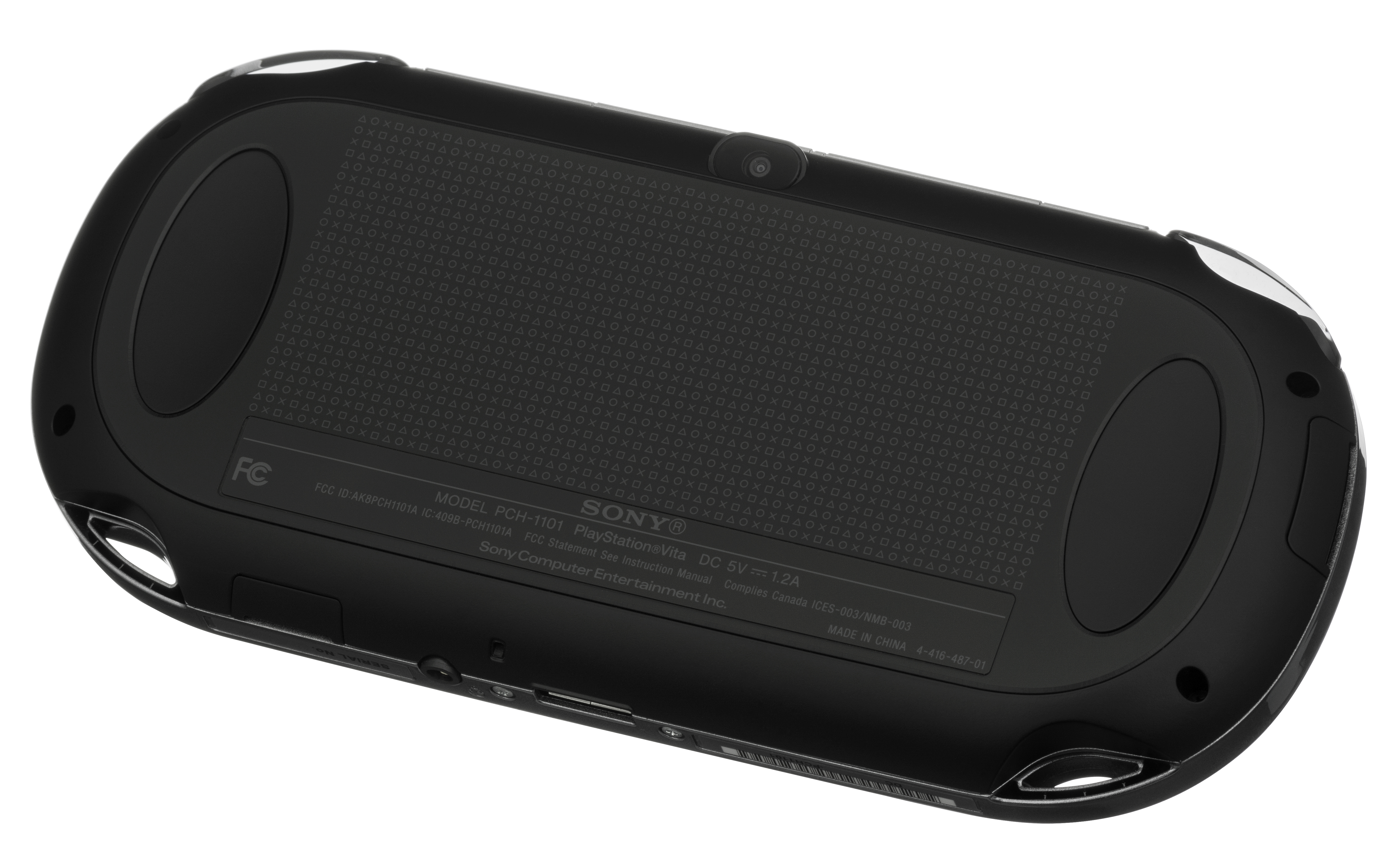 The PlayStation Vita, a handheld gaming console by Sony released in 2012. The successor to the PlayStation Portable (PSP), the Vita has numerous improvements over the previous system. It has rear and front touchscreens, dual analog sticks and a higher resolution OLED screen. This model, the PCH-1101 also has built-in 3G wireless service support, but also comes in a Wi-Fi (PCH-1001) model.